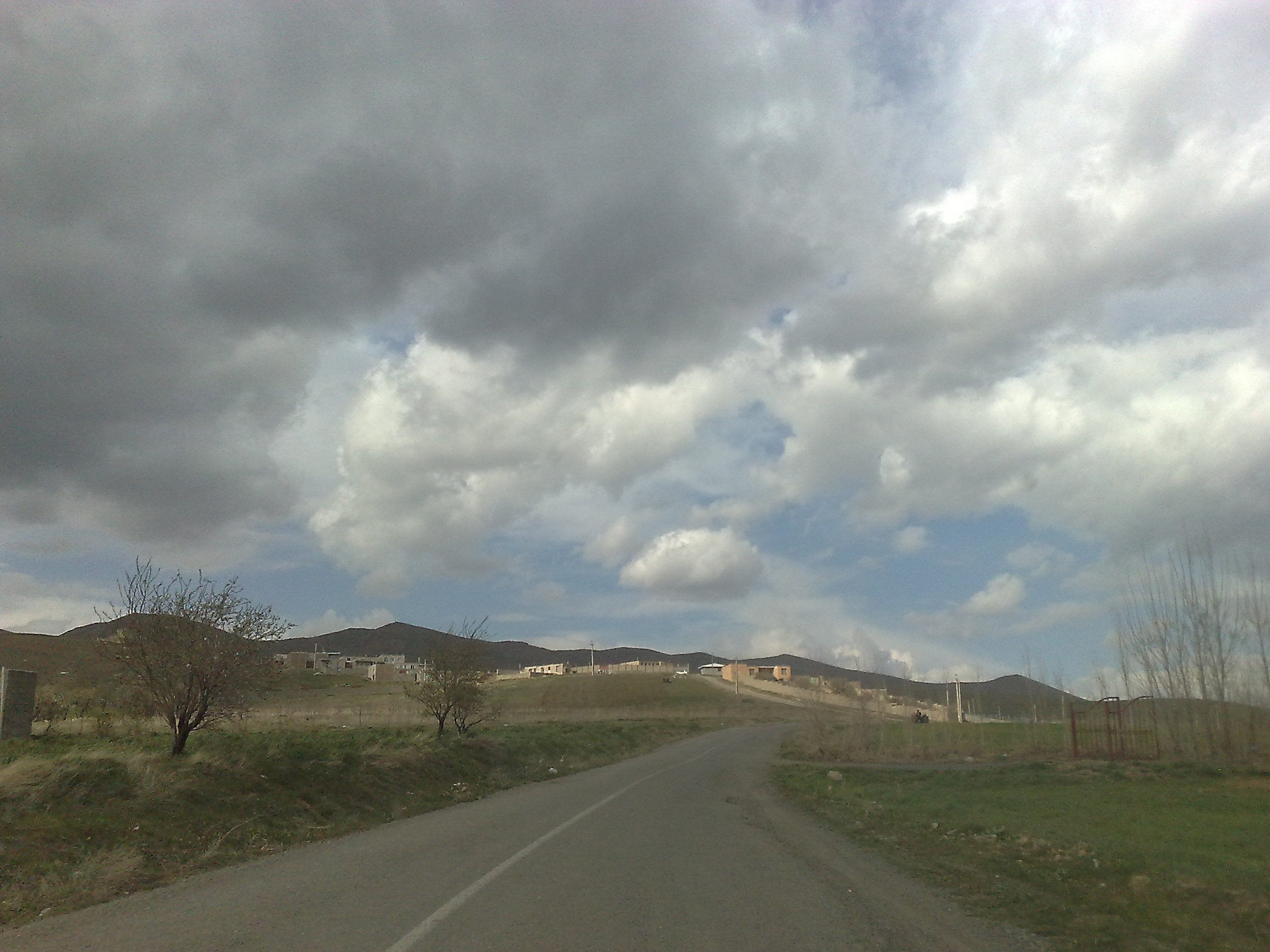 Qeylesû-Saqqez-Kurdistan-Iran